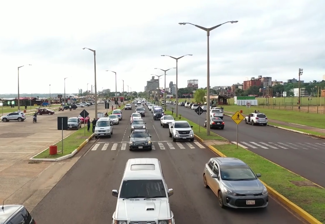 Avenue Costanera in Encarnación, Paraguay